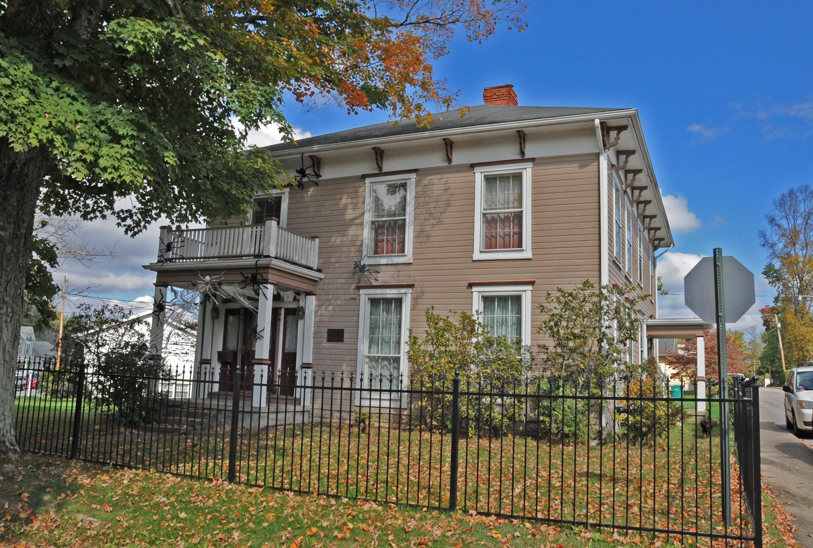 AKA OAKDALE BRIDGEPORT, HARRISON COUNTY BUILT IN 1818 FOR THEN ASSEMBLYMAN JOSEPH JOHNSON WHO WAS THE ONLY GOVERNOR OF VIRGINIA FROM THE TRANS-ALLEGHENY REGION.